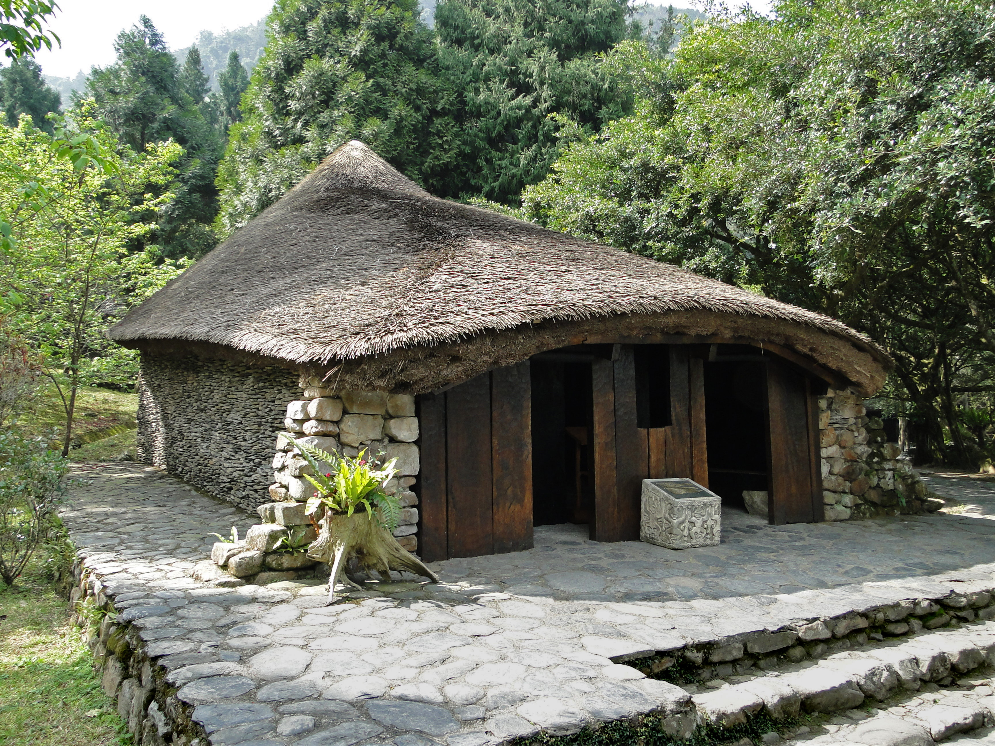 Paiwan House from Soubao Village in Formosan Aboriginal Culture Village, Taiwan